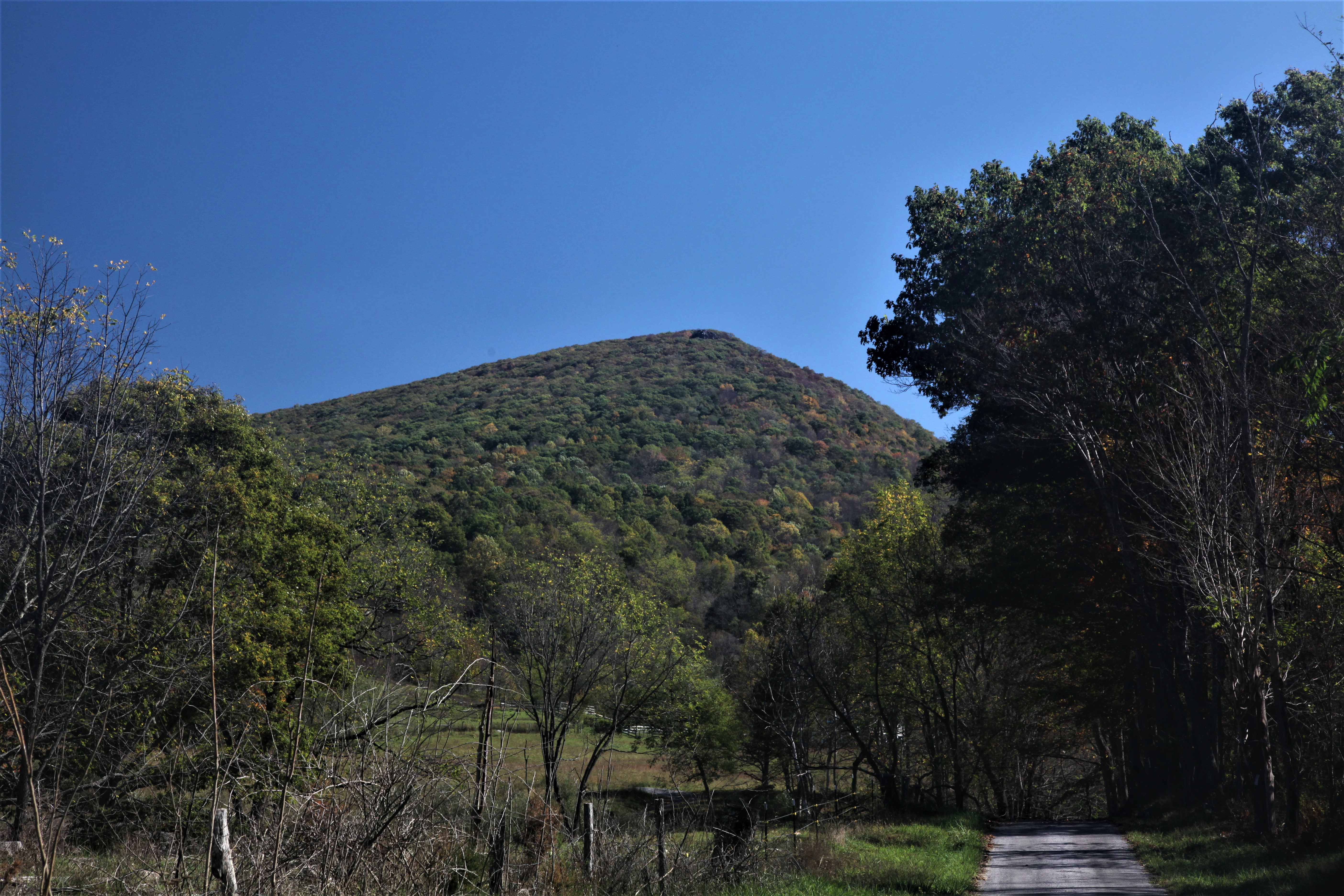 Hanging Rock viewed from Va 603 in Hanging Rock Valley, 15 oct 17